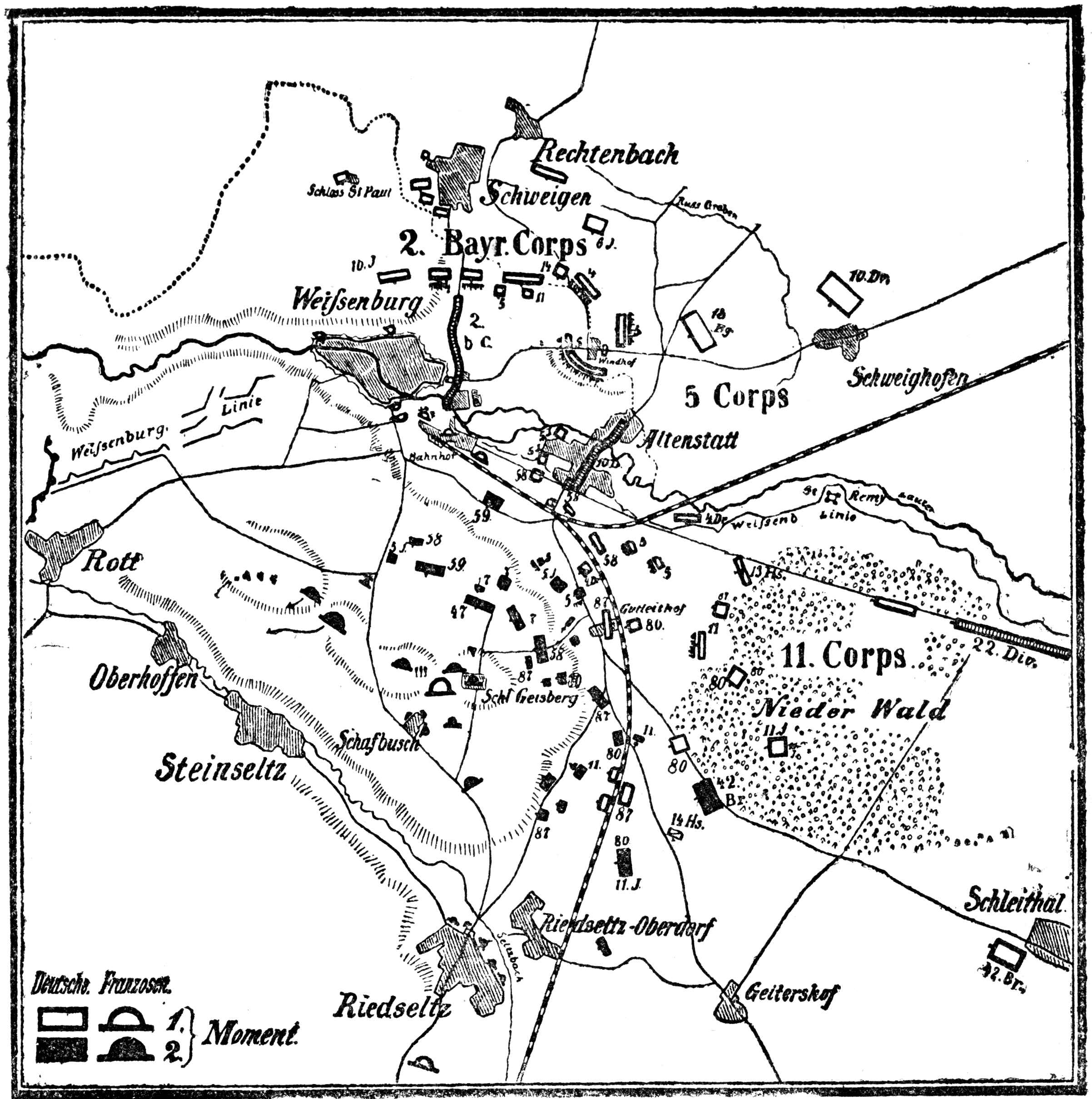 German map of the Battle of Wissembourg in the Franco-Prussian War on August 4th, 1870.